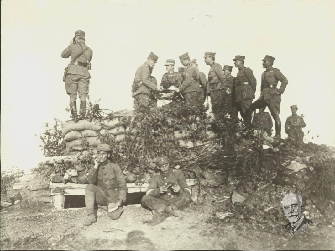 Greek Major General Georgios Leonardopoulos in Asia Minor, 1921Türkçe: Yunan Tümgeneral Yeoryos Leonardopulos Anadolu'da, 1921